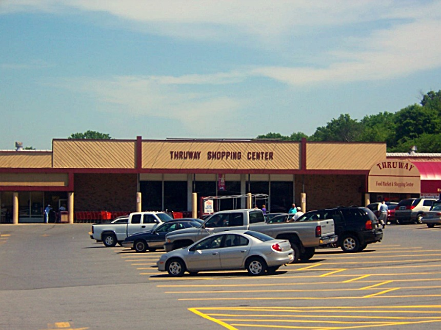 Photographed by Daniel Case on June 8, 2005. Building demolished in 2013